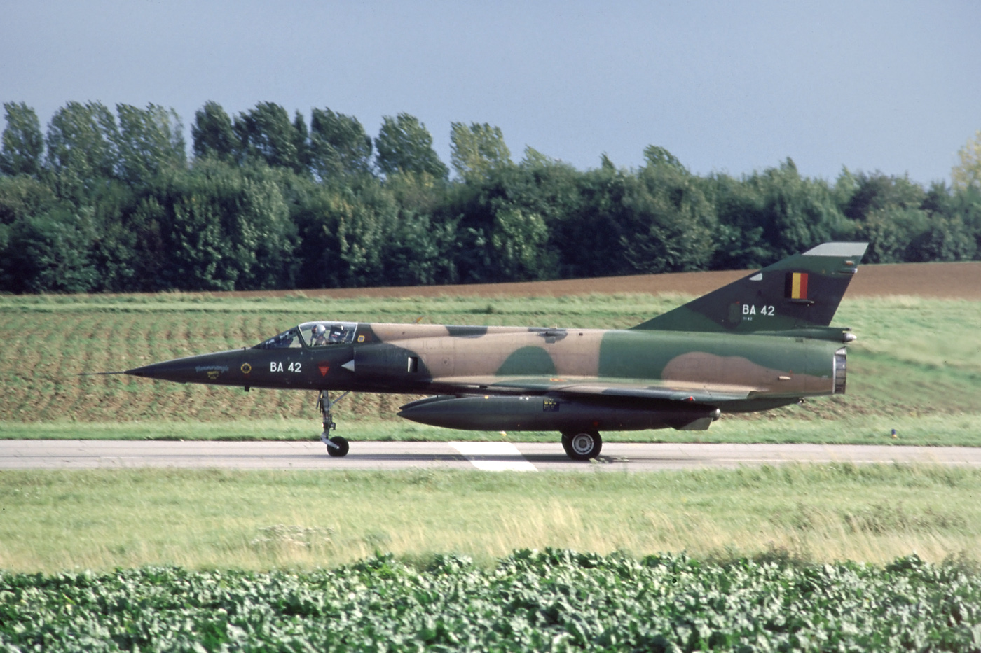 Bierset, 26 September 1993. This was the last airshow with the Belgian Mirages. BA42 (1 smaldeel) was one of the last to retire, in January 1994.